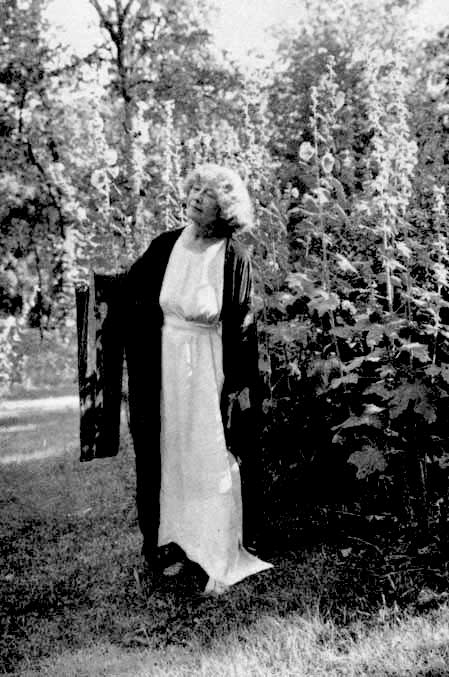 Rose O'Neill in 1937